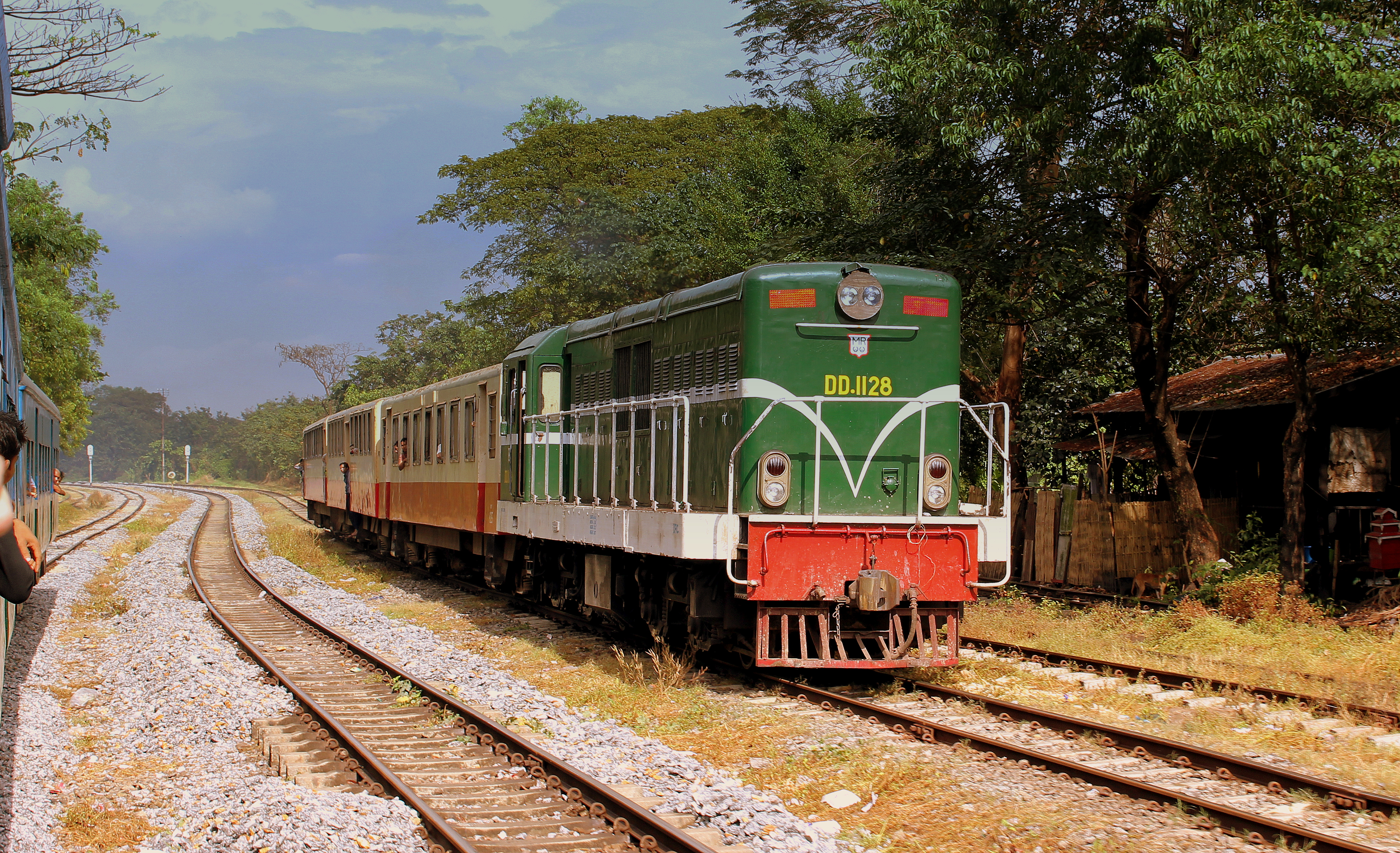 MYANMAR RAILWAYS LOCO HAULED LOCAL TRAIN ON THE YANGON CIRCULAR RAILWAY YANGON MYANMAR JAN 2013